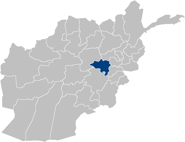 Location map for Wardak Province in Afghanistan. Original map source: Image:Afghanistan_provinces_blank.png